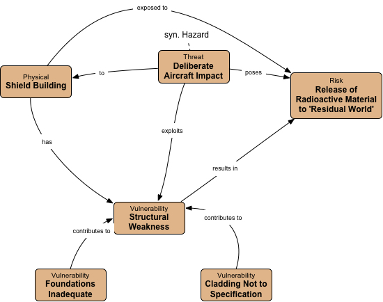 Example TRAK SV-13 Solution Risk View describing the shield building for a nuclear reactor and the threat of deliberate aircraft impact.